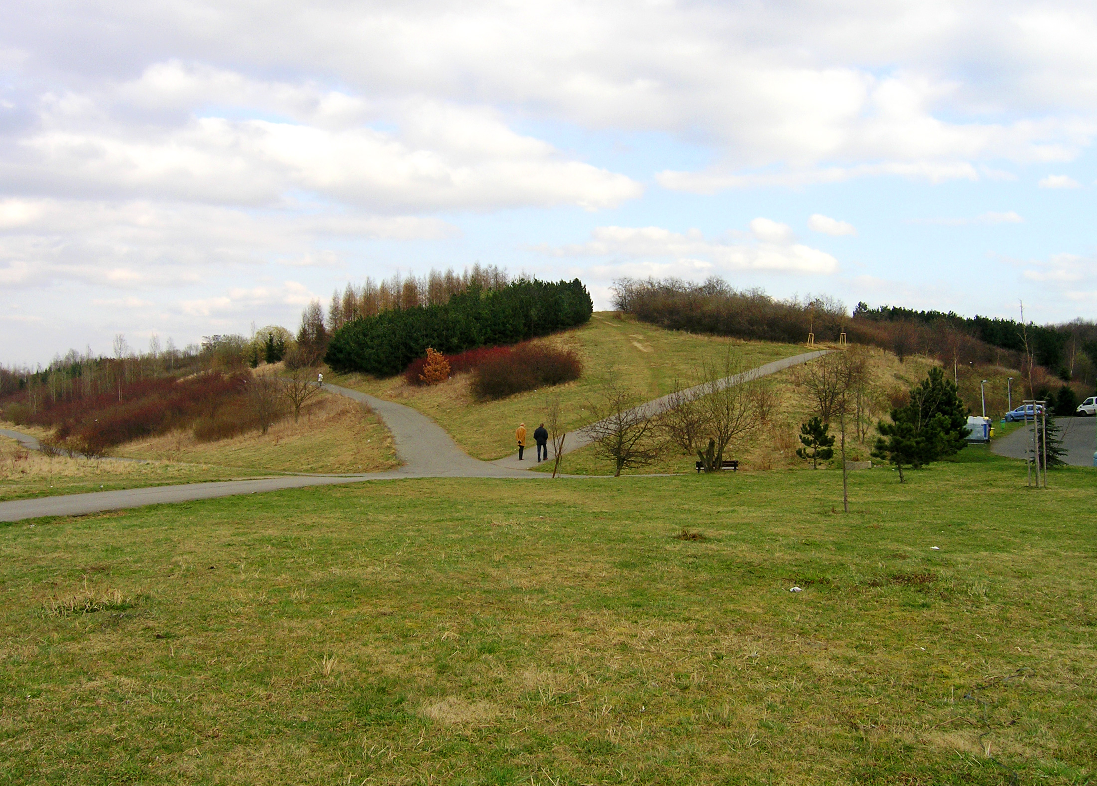 Milíčov Hill in Kateřinky (part of Újezd u Průhonic), Prague